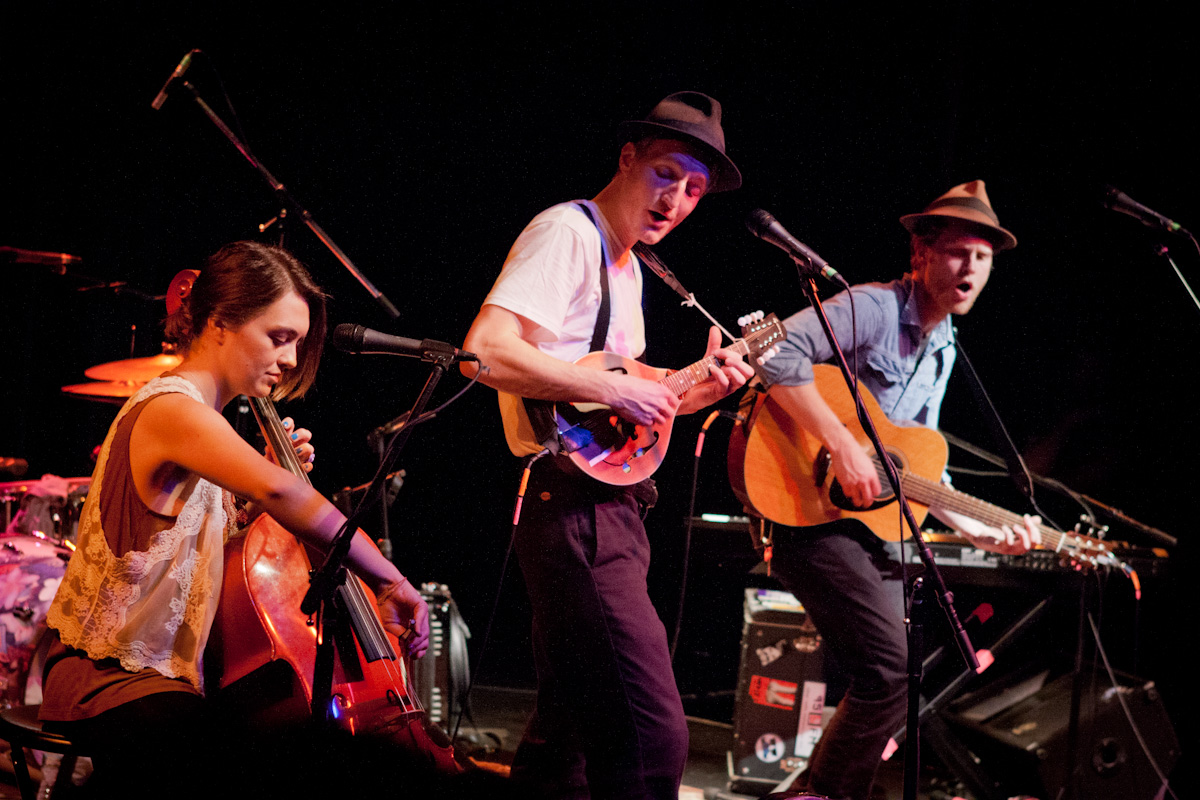 The Lumineers perform at Fairfield Theatre Company StageOne in Fairfield, Connecticut. Wesley Schultz on acoustic guitar (right), Jeremiah Fraites on mandolin (middle), Neyla Pekarek on cello (left).